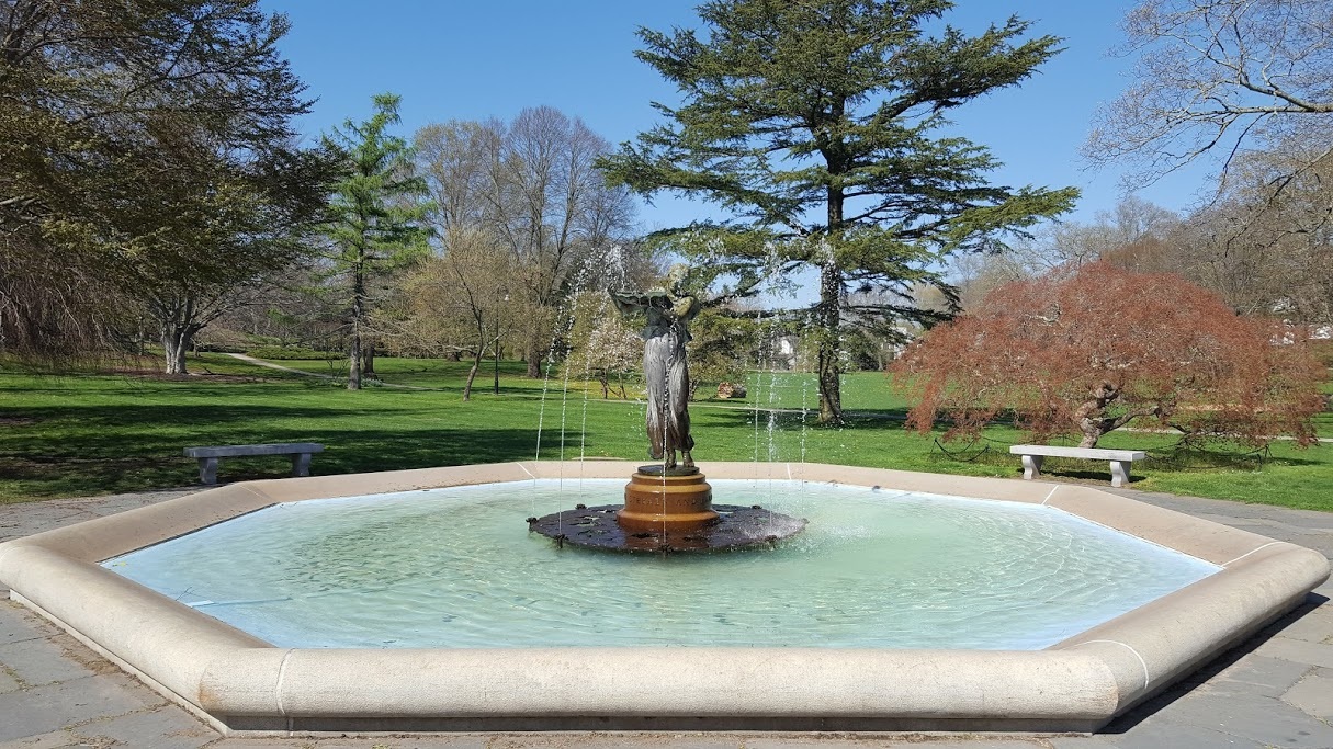 The fountain contained within Wilcox Park | A Tribute to Stephen and Harriet Wilcox